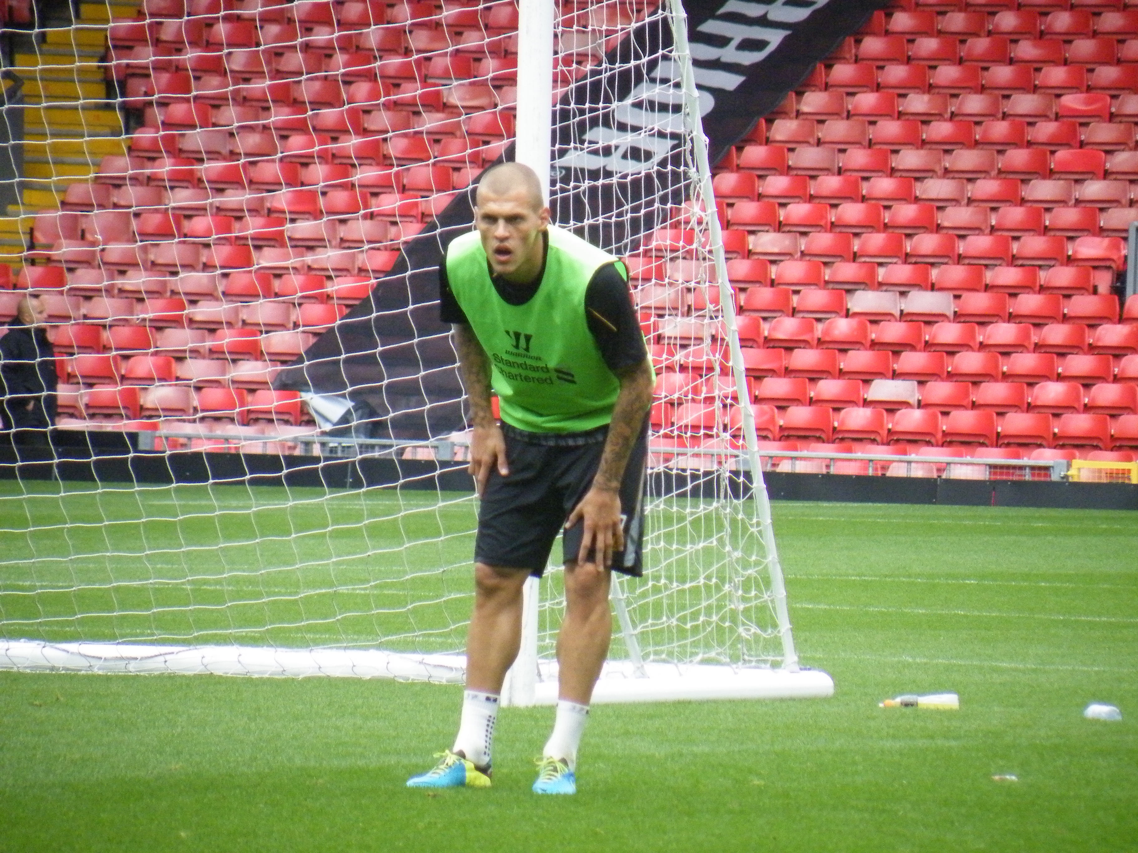 Martin Škrtel during open training session at Anfield in August 2013.